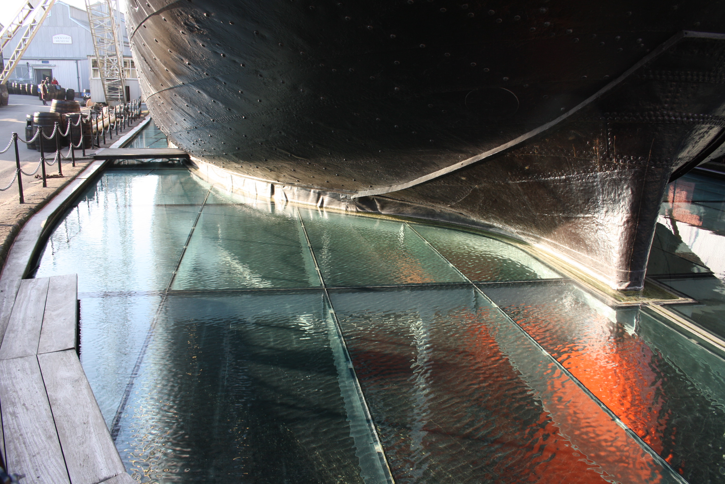 SS Great Britain, showing the 'false sea' that effectively seals the lower hull from the air